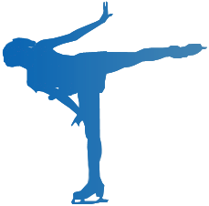 Camel spin performed by Yukina Ota at the 2003 NHK Trophy.